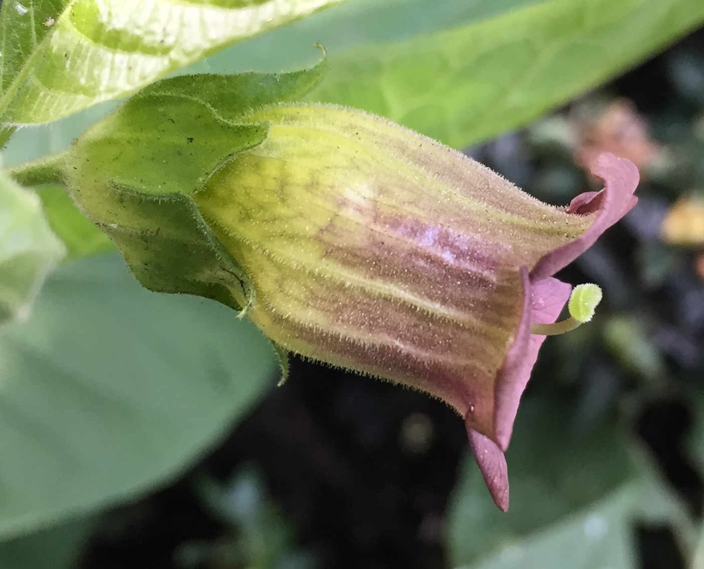 Atropa belladonna L. Deadly Nightshade. Single flower in profile, showing calyx, exterior of corolla and protruding, minutely pubescent stigma.